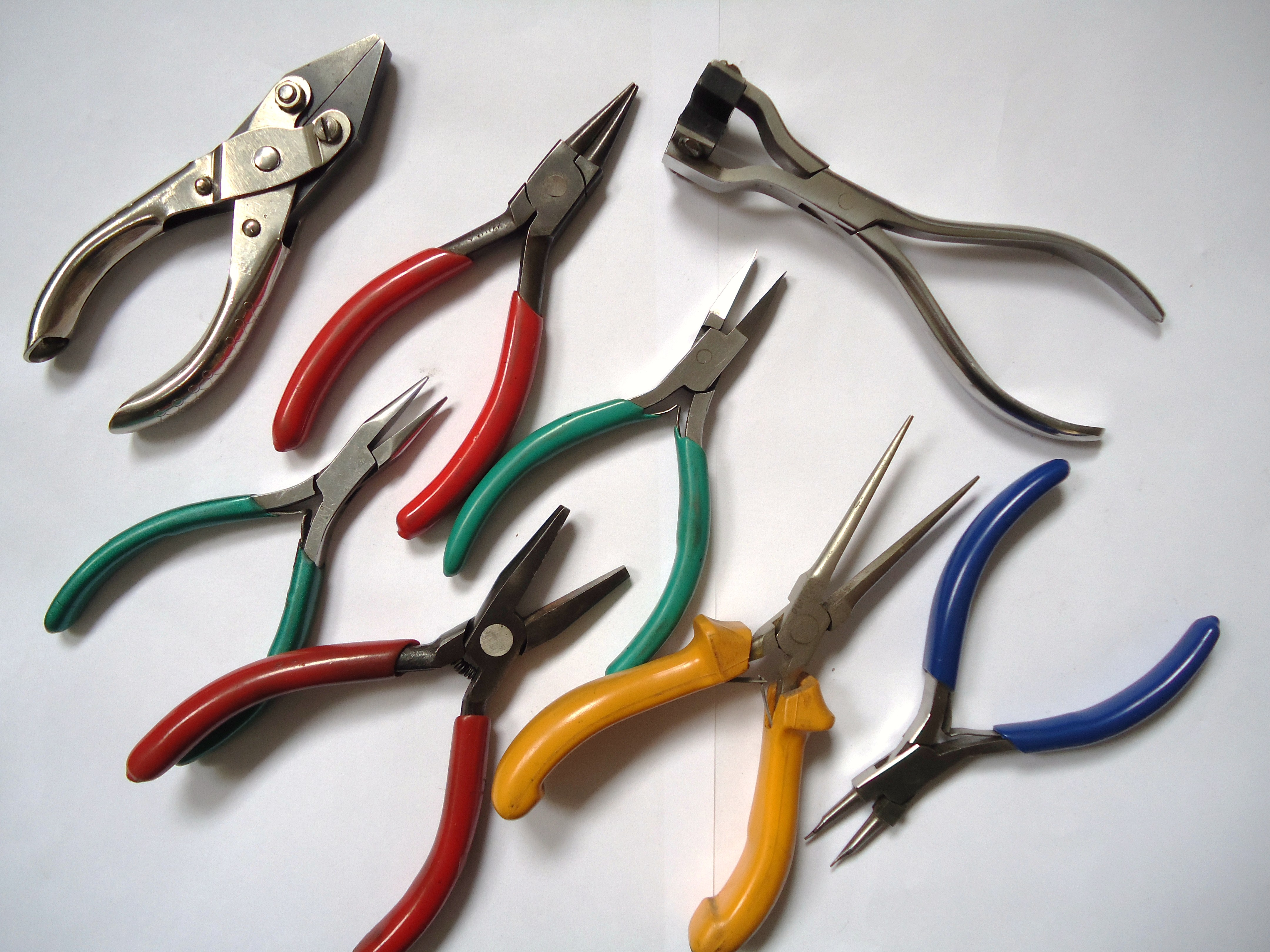 Some pliers used in jewellery. Photo : Mauro Cateb, Brazilian jeweler.